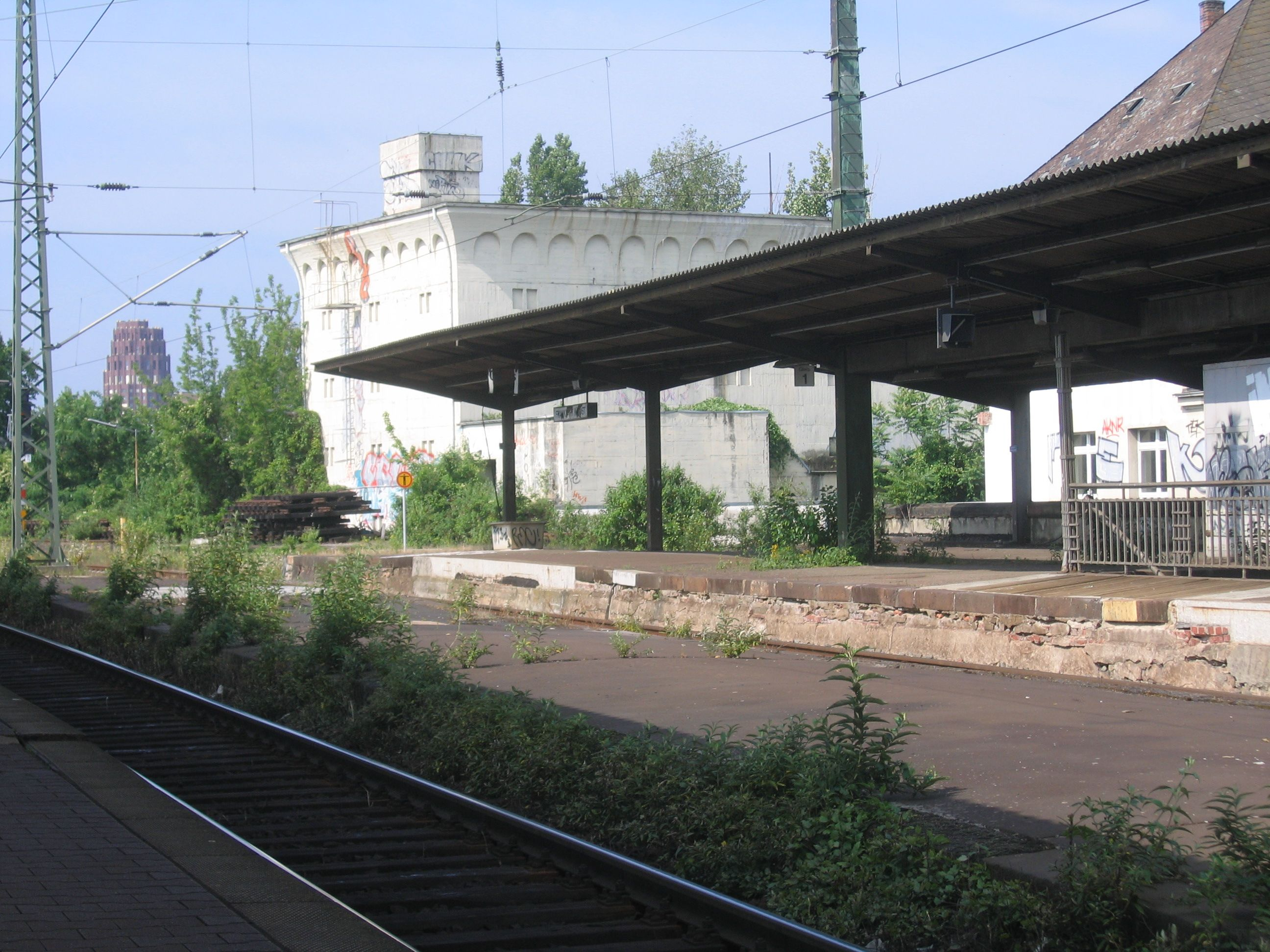 Bahnhof Frankfurt (Main) Ost. The WW II air-raid-shelter in the background was demolished in 2010.